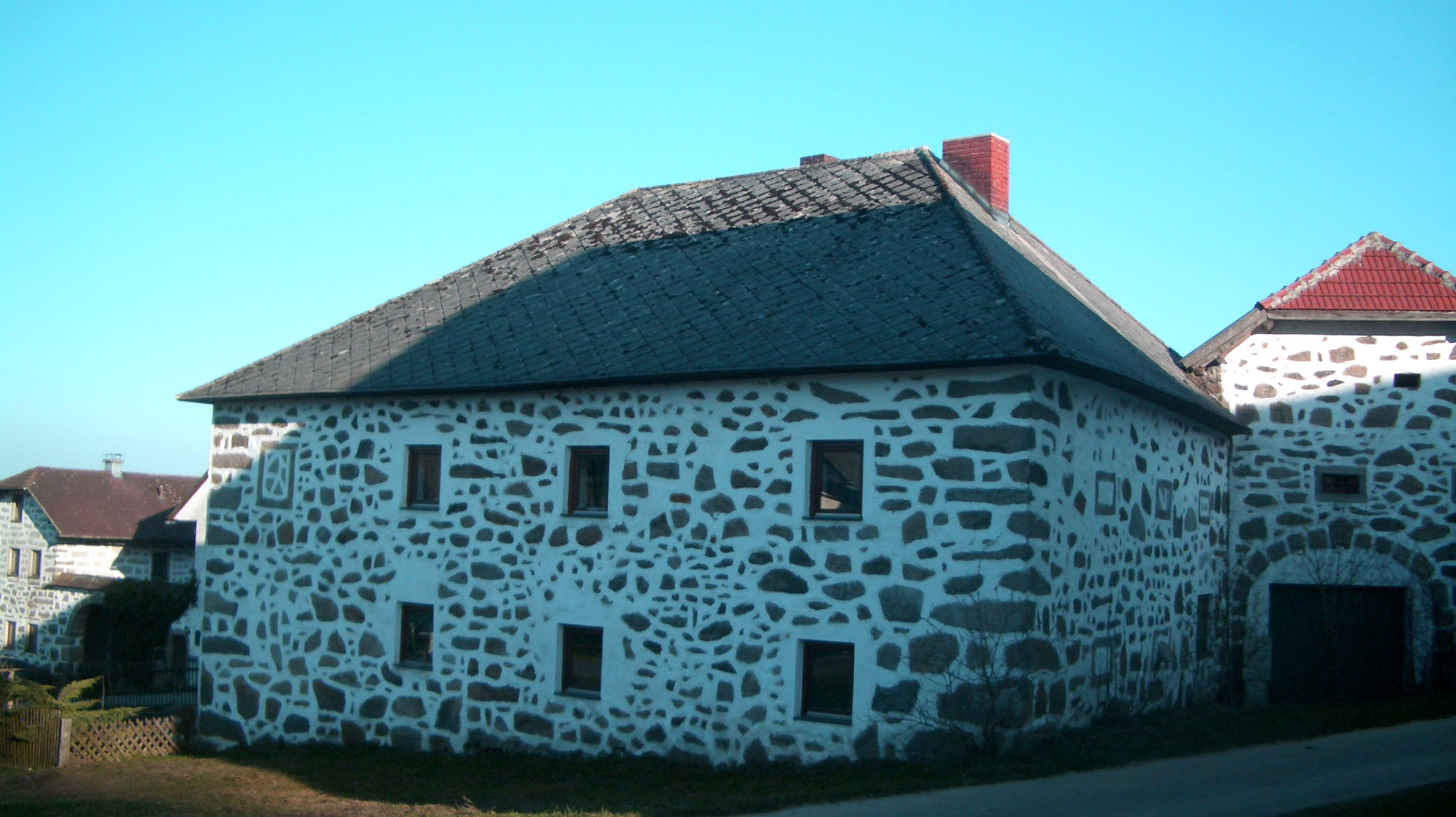 Farm buildings in Ottenschlag in Upper Austria